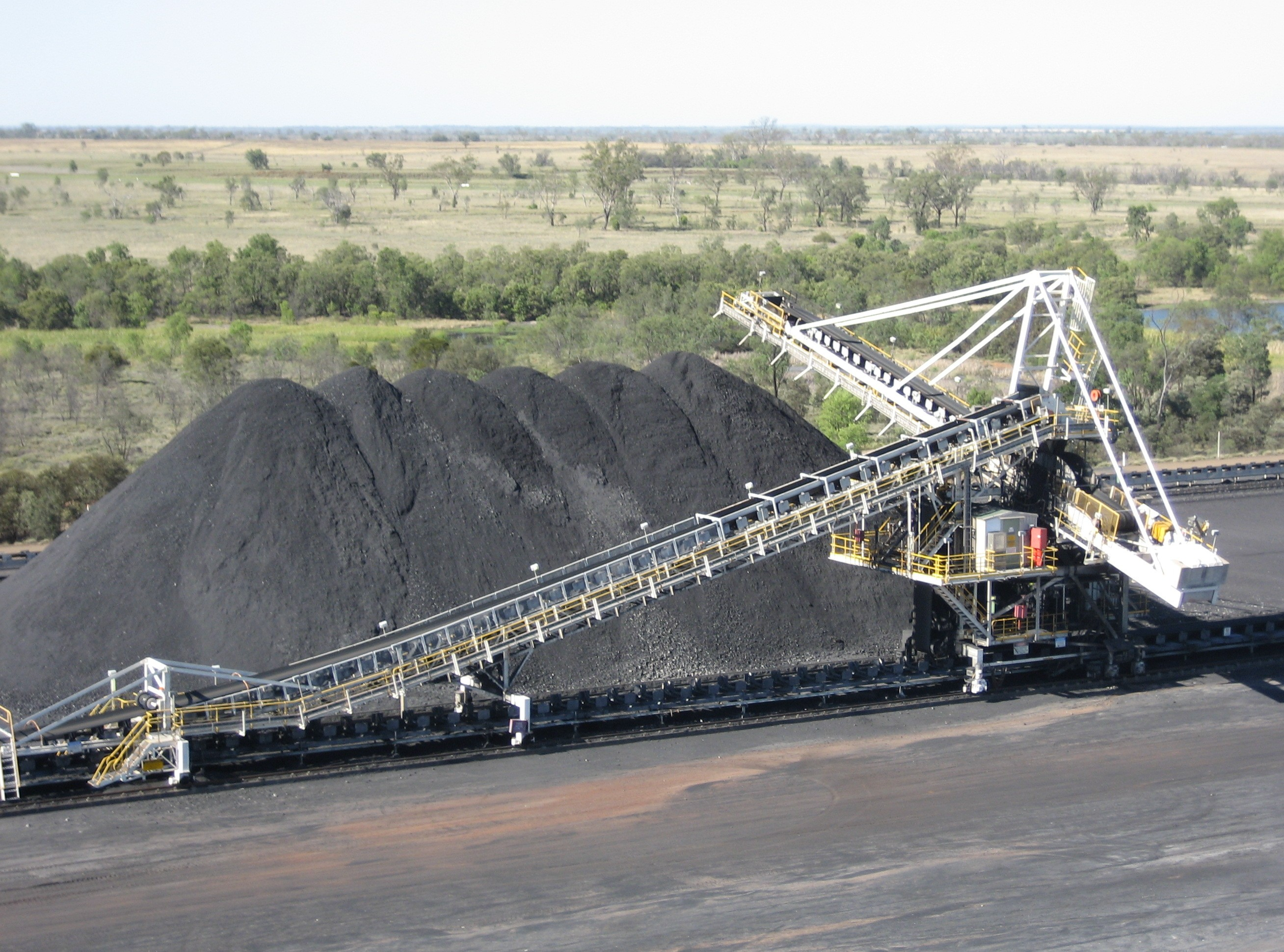 Krupp coal stacker at RTCA Kestrel Mine, Queensland